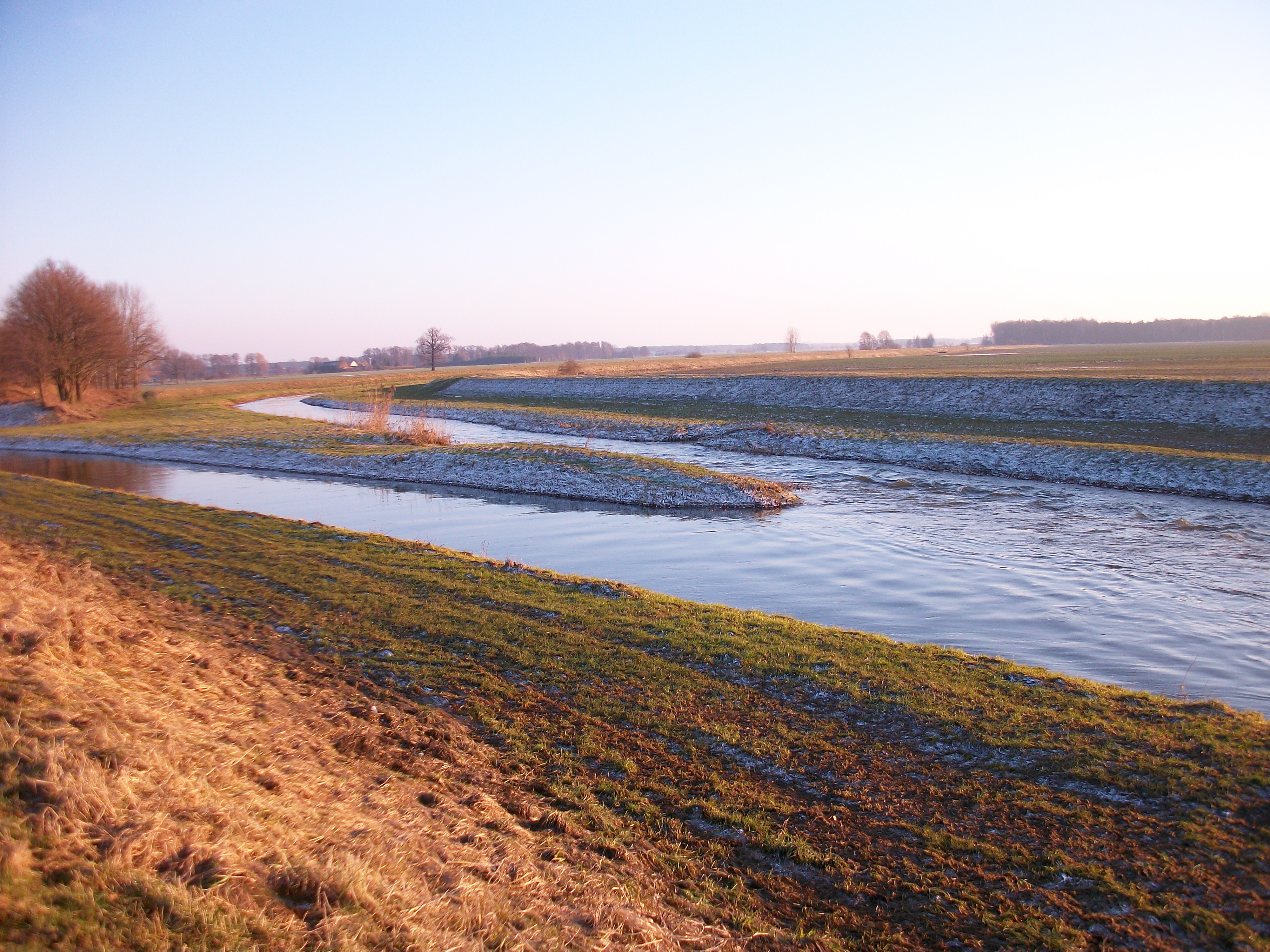 Mouth of river Hoyerswerdaer Schwarzwasser (from the left) Hornjoserbsce: Wuliwanje Čornicy (wotlěwa) do Wudry zapadnje Ćiska